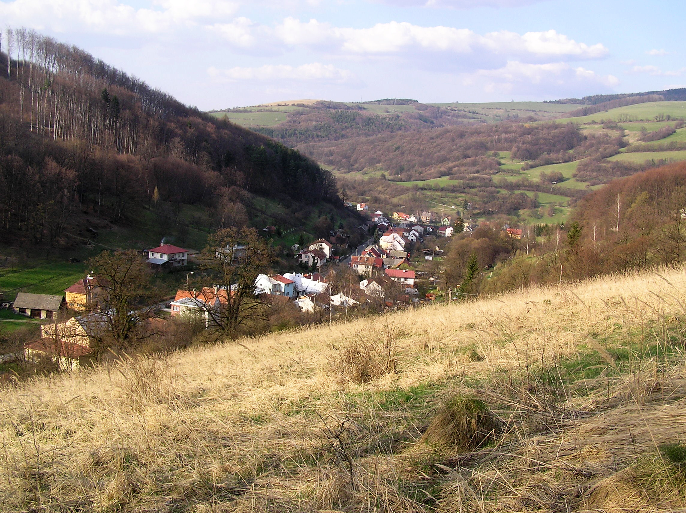 village of Svatý Štěpán (Saint Stephen), administrative part of Brumov-Bylnice town, Zlín District, Czech Republic.